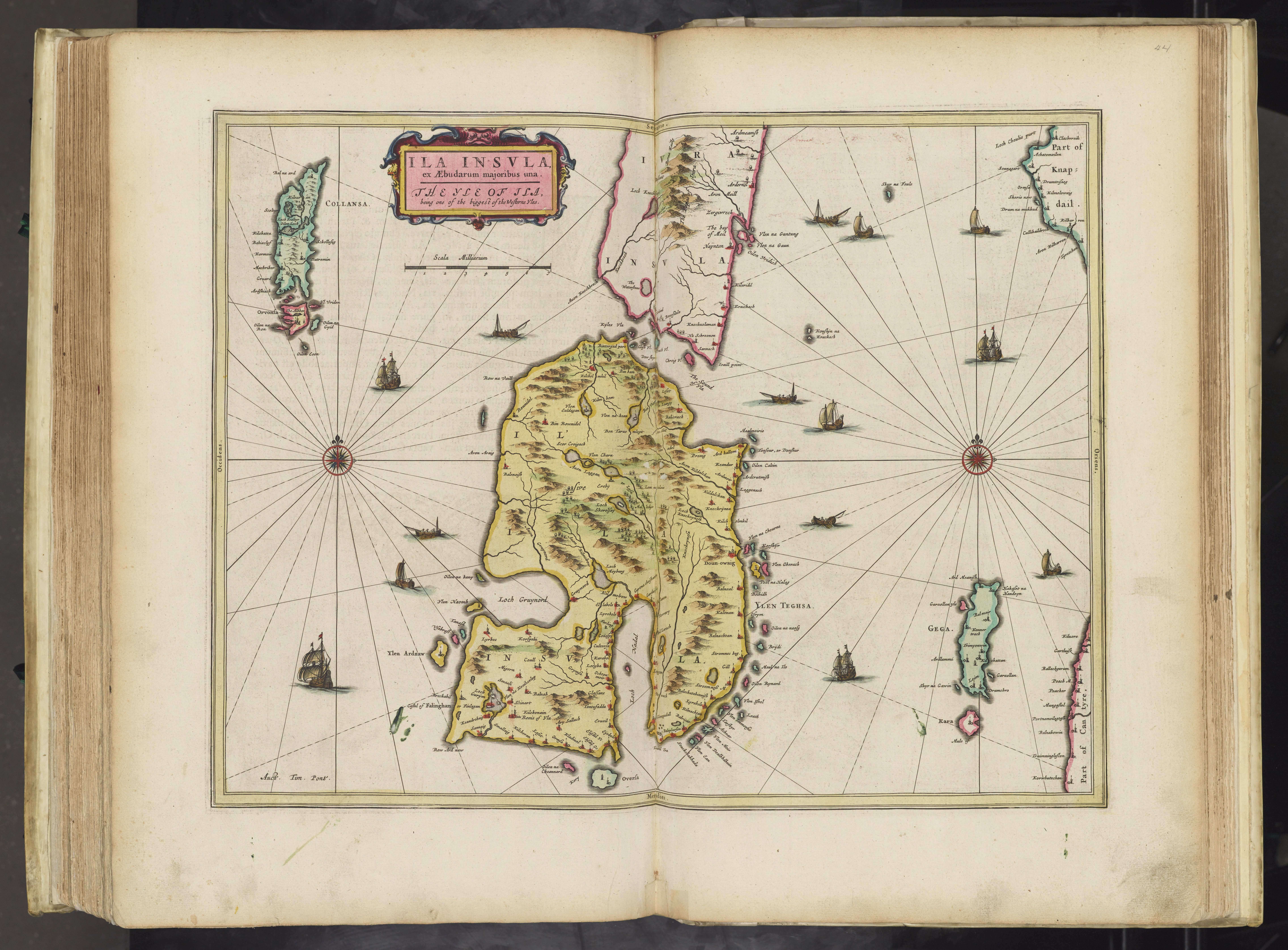 Historical map of Islay (including neighboring islands Gigha, Colonsay, Jura-part), Inner Hebrides, Scotland